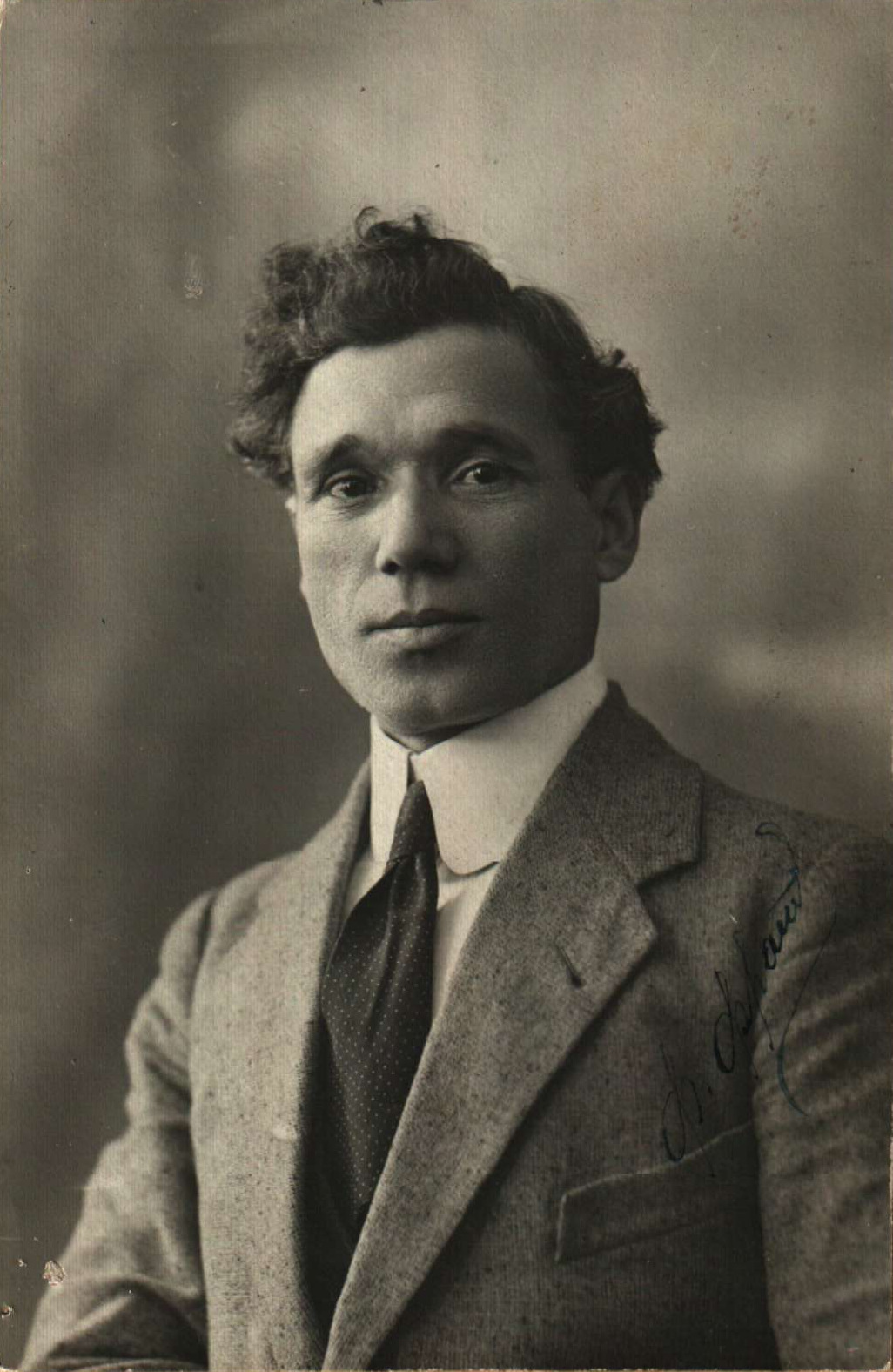 Bulgarian artist Fratyo Fratev (1876-1920).